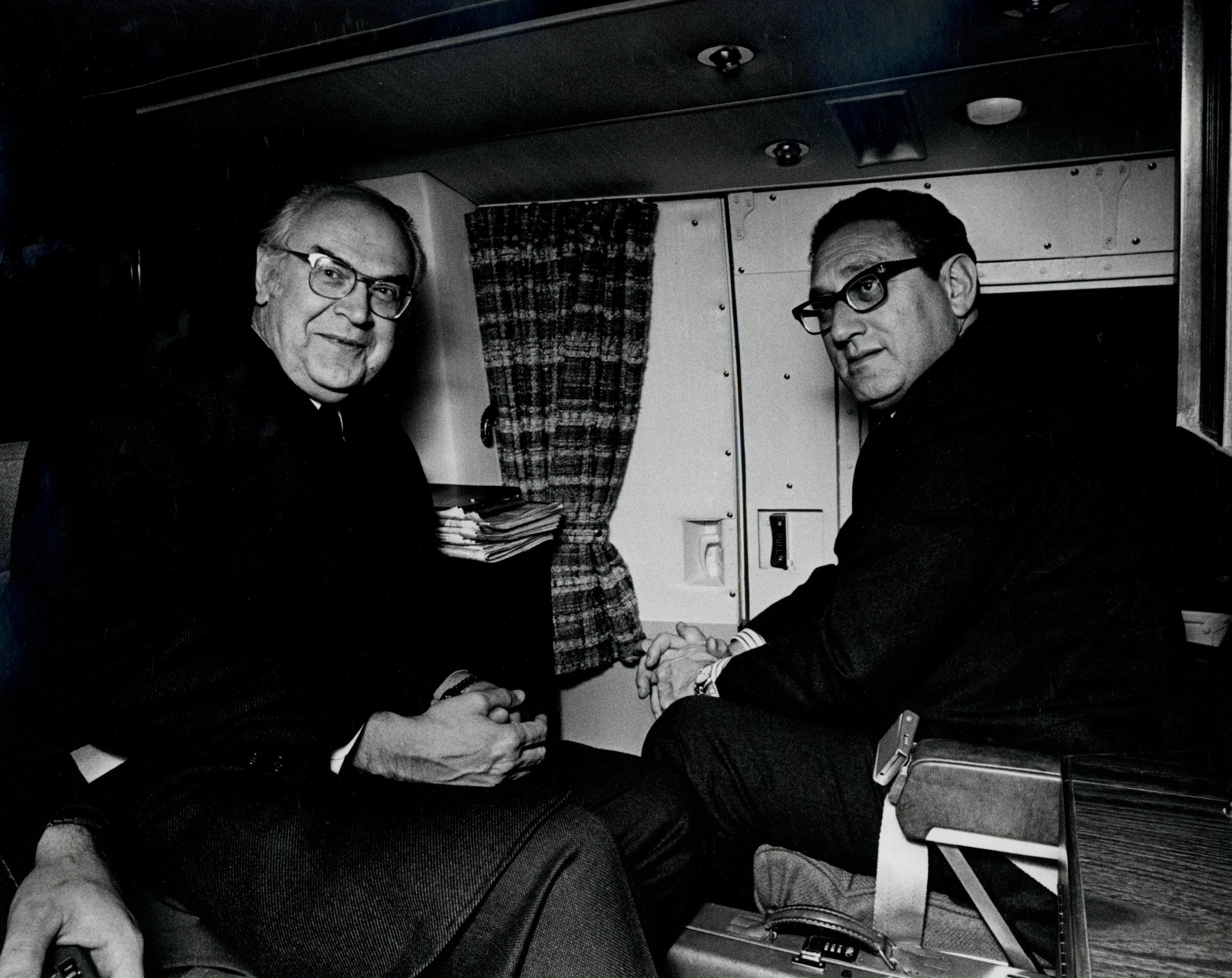 U.S. Secretary of State Henry Kissinger and Soviet Ambassador Anatoly Dobrynin meeting on helicopter, January 25, 1974